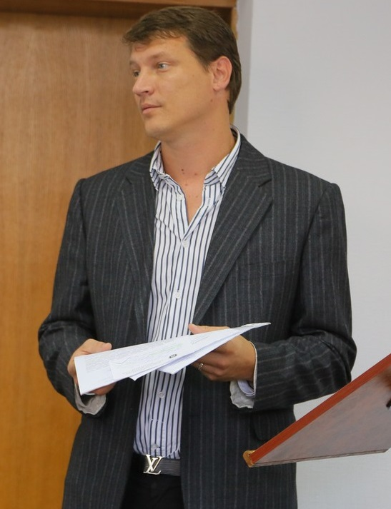 Oleh Lisohor reporting at the 58th session of 6th convocation of Brovary City Council. Proof of License: [2].